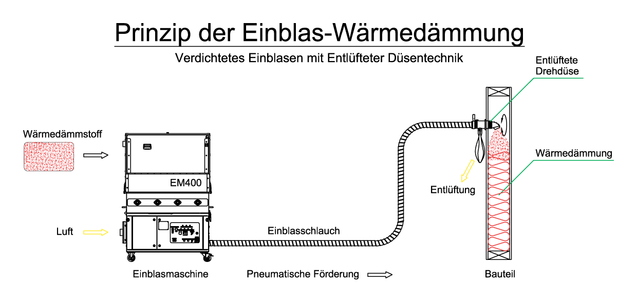 Principle blow-in insulation with ventilated rotary nozzle